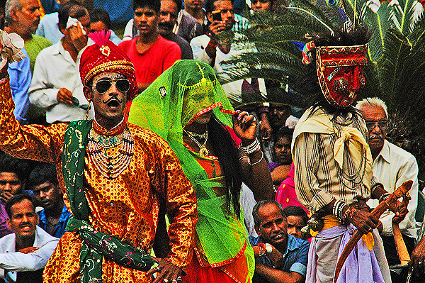 Bhanjara gypsy trader couple enacted by Jaisamand Gavari troupe players